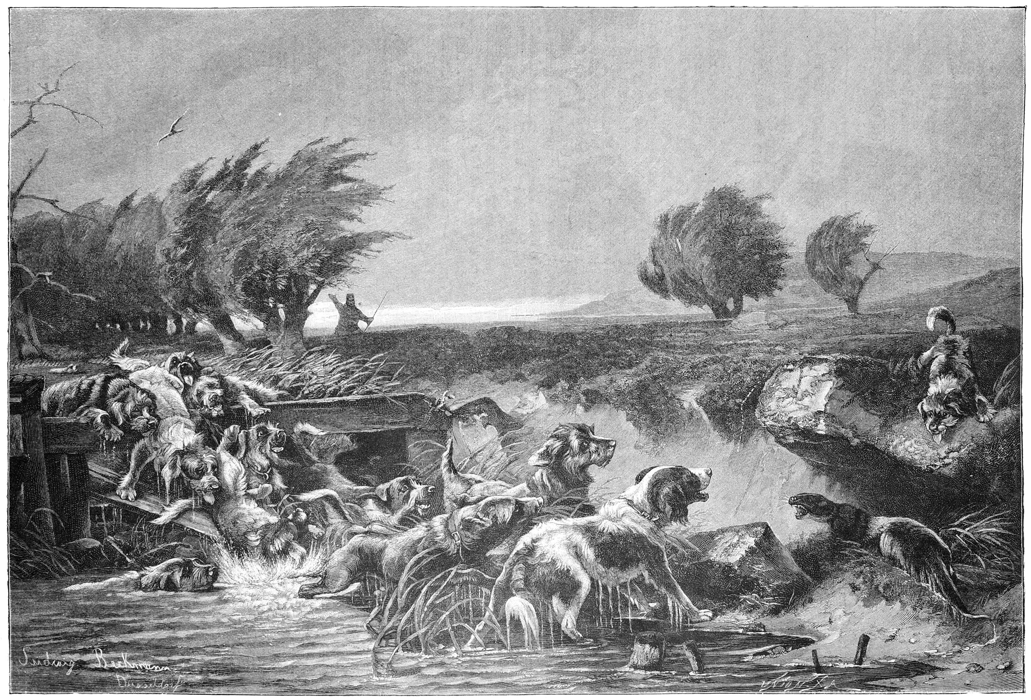 caption: "Otterjagd. Nach einem Gemälde von L. Beckmann."